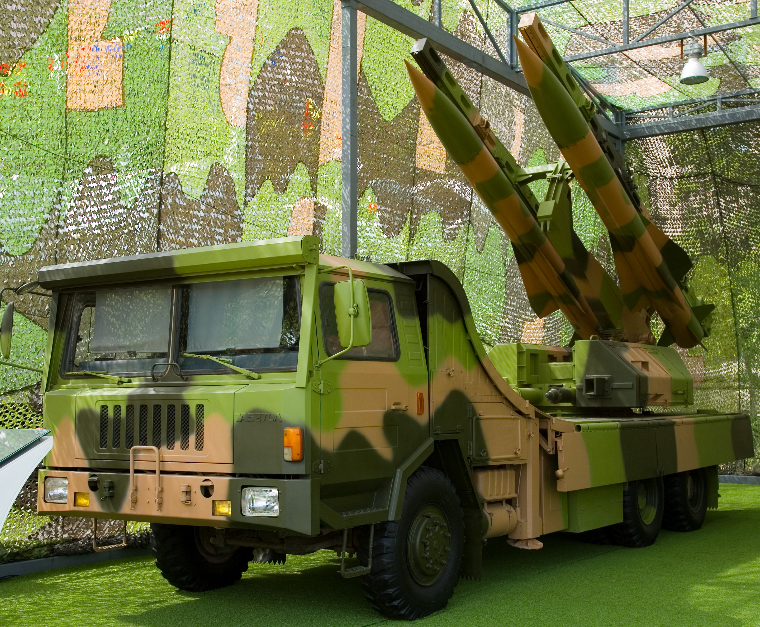 A Chinese KS-1 SAM mobile launcher, on display in Beijing at the Military Museum during the "Our troops towards the sky" exhibition.